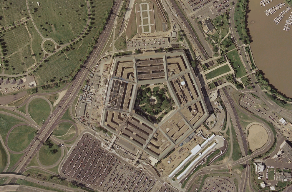 The Pentagon in April 2002.